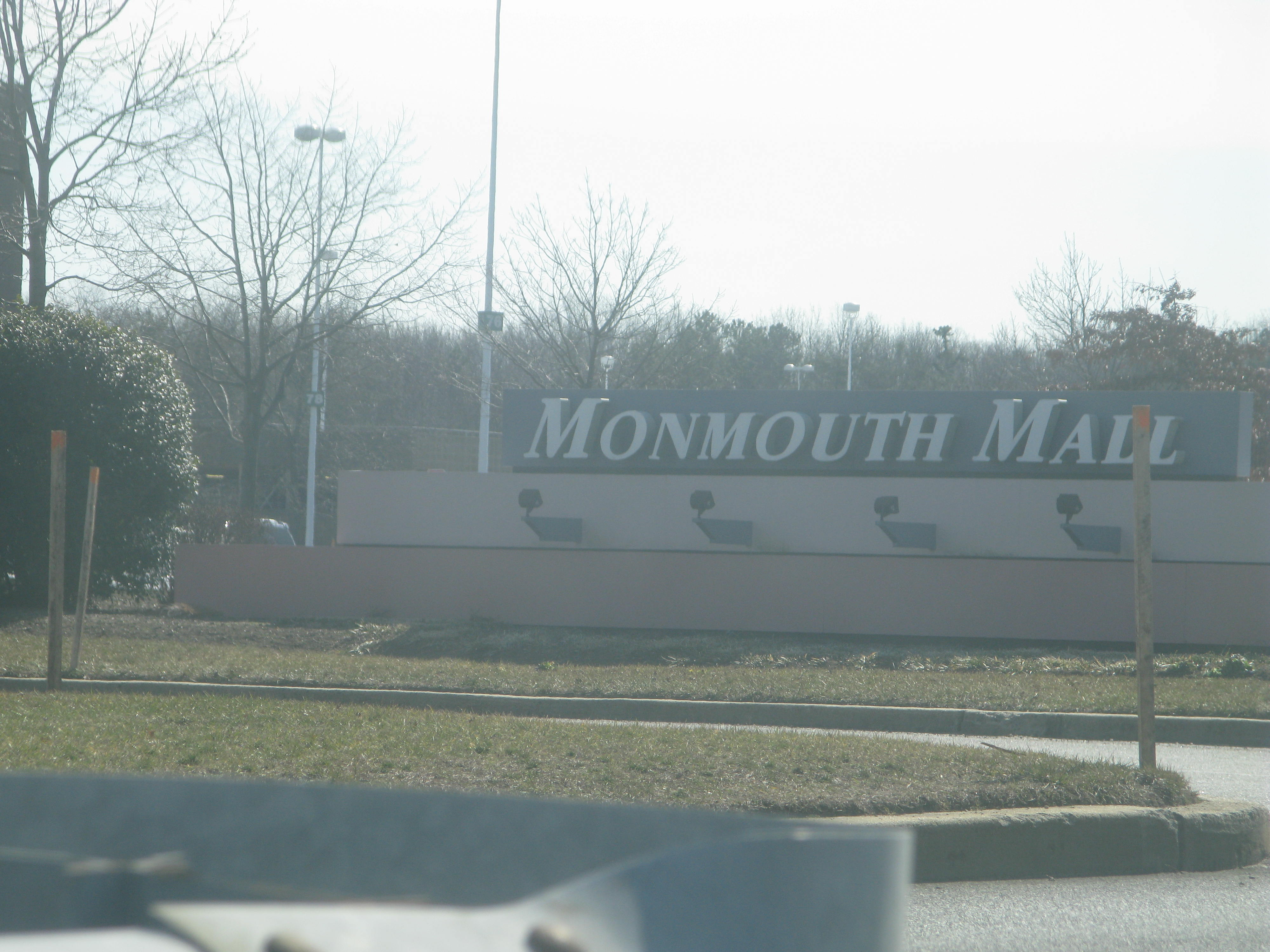 Monmouth Mall sign from Wyckoff Road entrance.